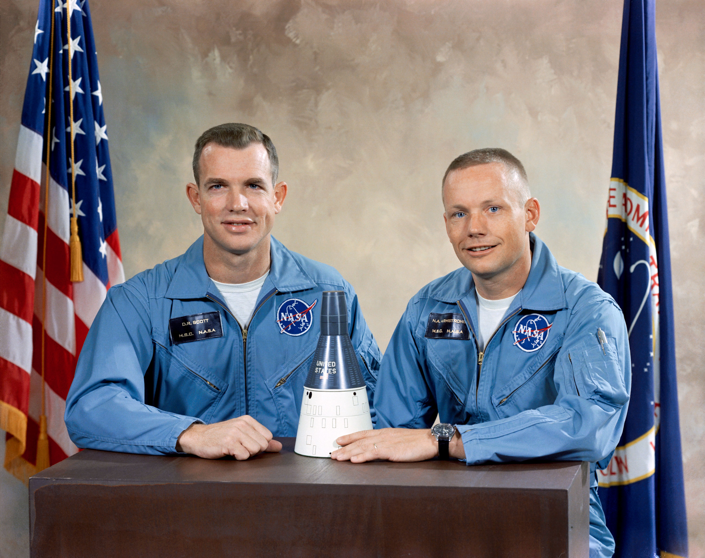 (Nov. 4, 1965) Astronauts David R. Scott (left), Pilot; and, Neil A. Armstrong (right), Command Pilot, pose with model of the Gemini Spacecraft after being selected at the crew for the Gemini VIII mission. Image Credit: NASA s65-58499